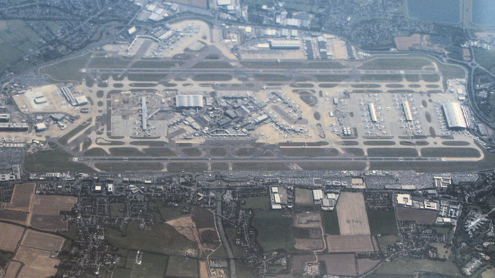 This is just to memorise my very first flight on a jetliner. The views were better than I had thought and the plane was louder than I had thought. And it's very frustrating if you see something interesting on the ground, but are unable to check what it is.